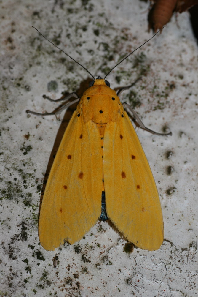 Malaysia, Fraser's Hill. March 2009